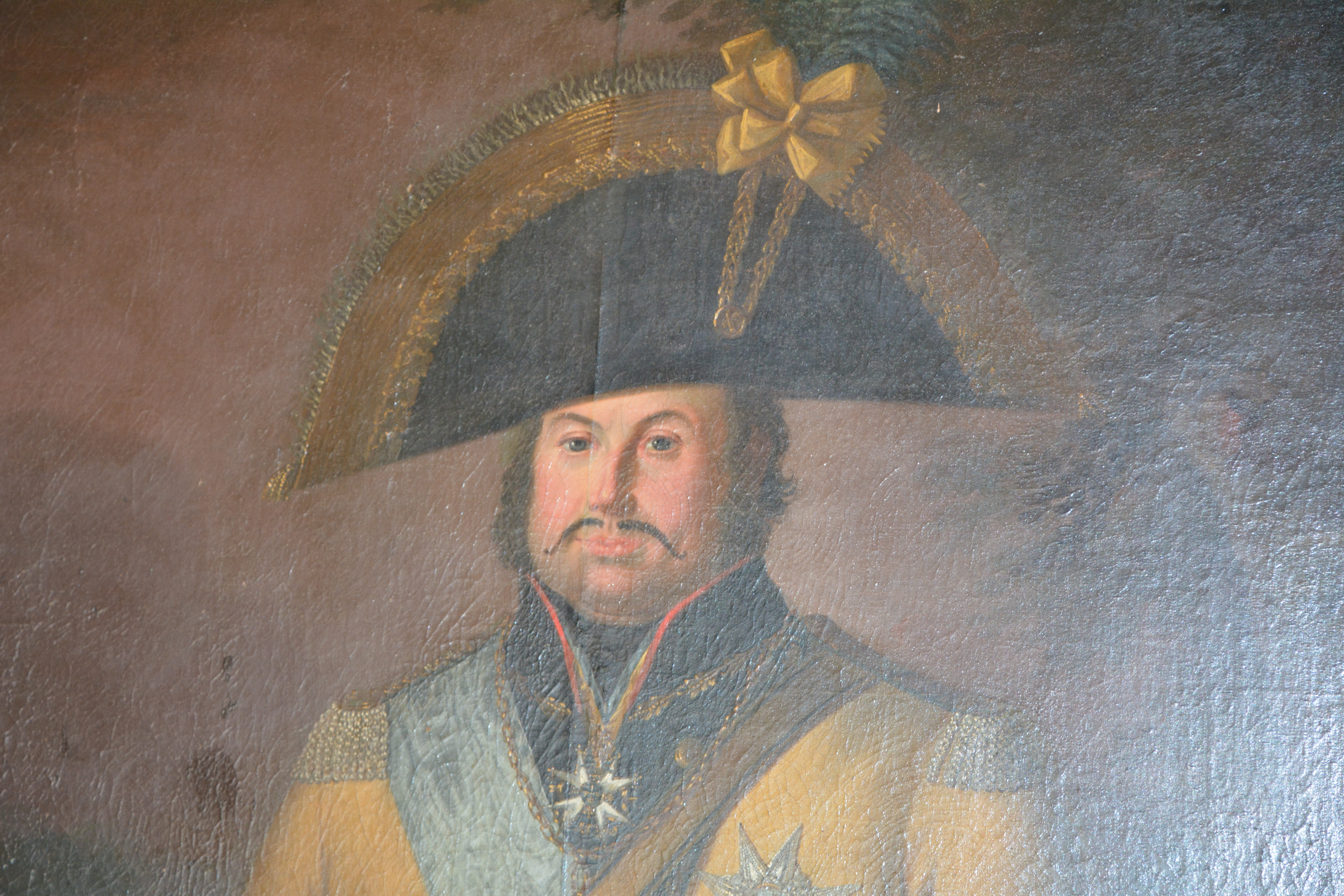 Bror Cederström (1754-1806)